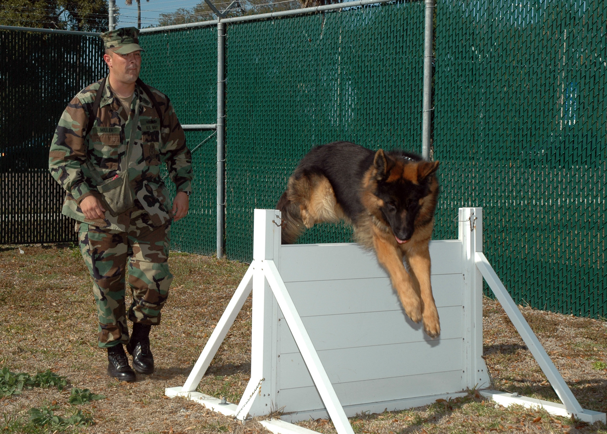 Mayport, Fla. (Dec. 19,2006) - Tim, an explosive detector dog, practices his jumping skills on an obstacle course during a training session with his handler Master-at-Arms 1st Class Steven Miller. Tim and his handler are assigned to the Security Military Working Dog Unit aboard Naval Station Mayport. U.S. Navy photo by Mass Communication Specialist 2nd Class Leah Stiles (RELEASED)